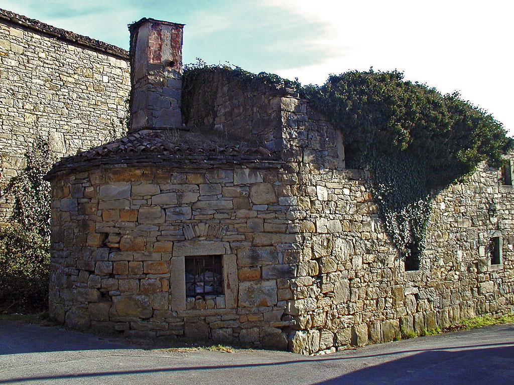 House in Labor, Istria